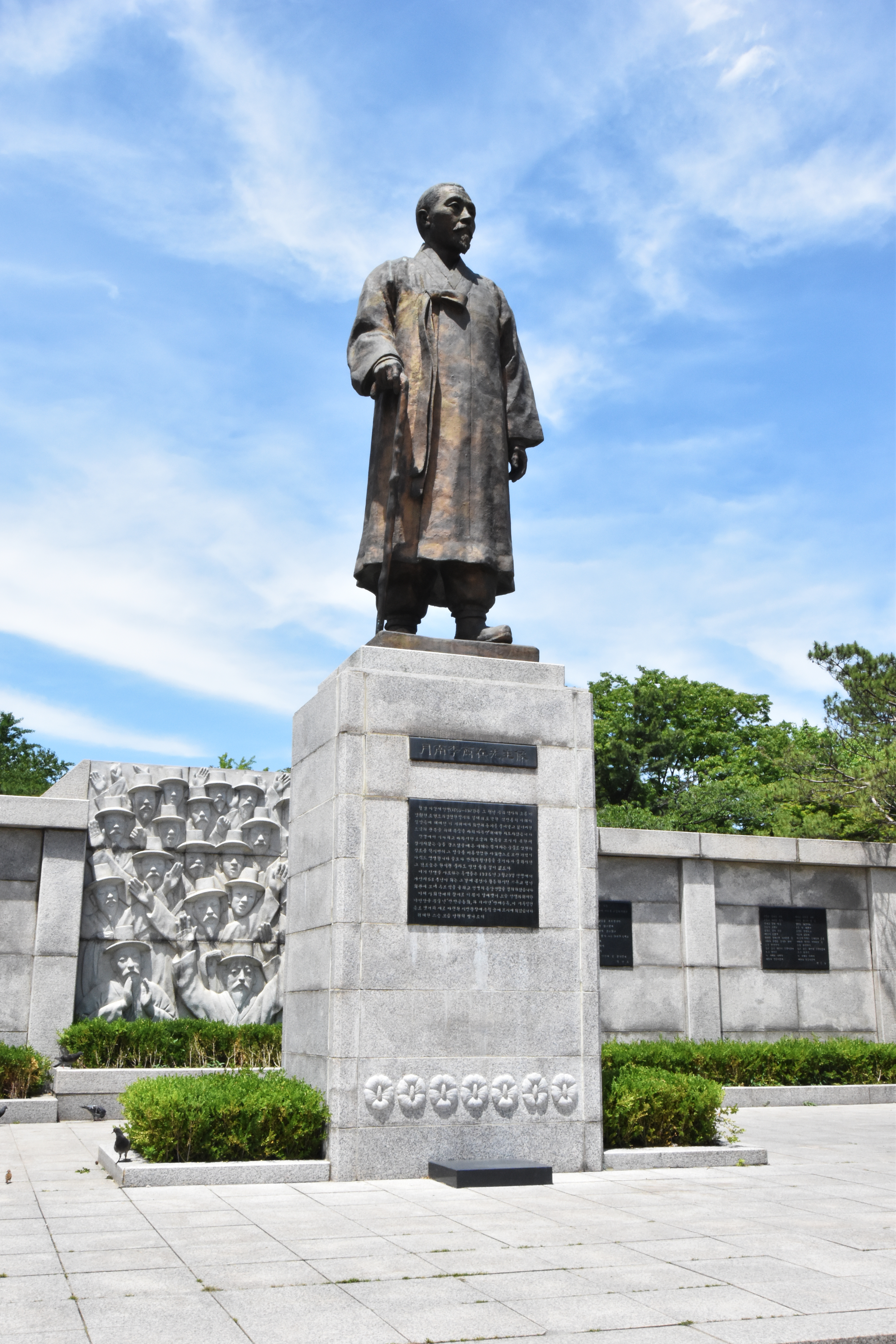 The statue of Lee Sang-Jae at Jongmyo park, Seoul